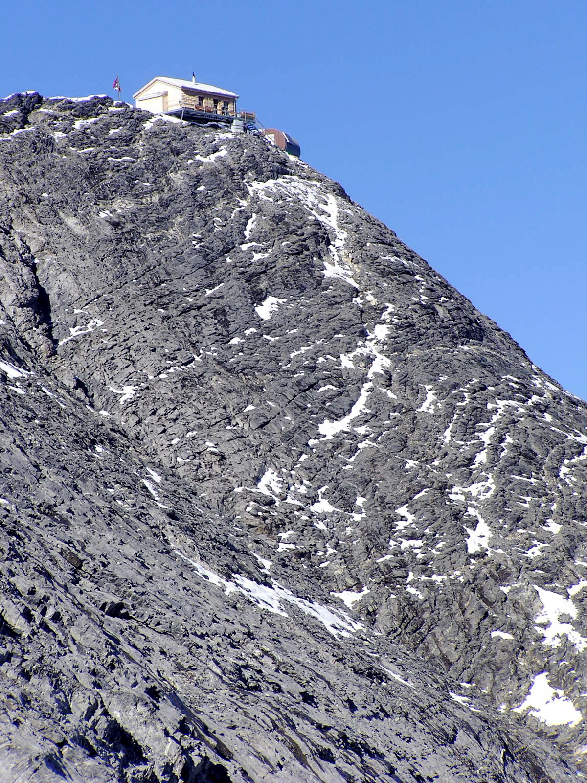 Mittellegi hut SAC